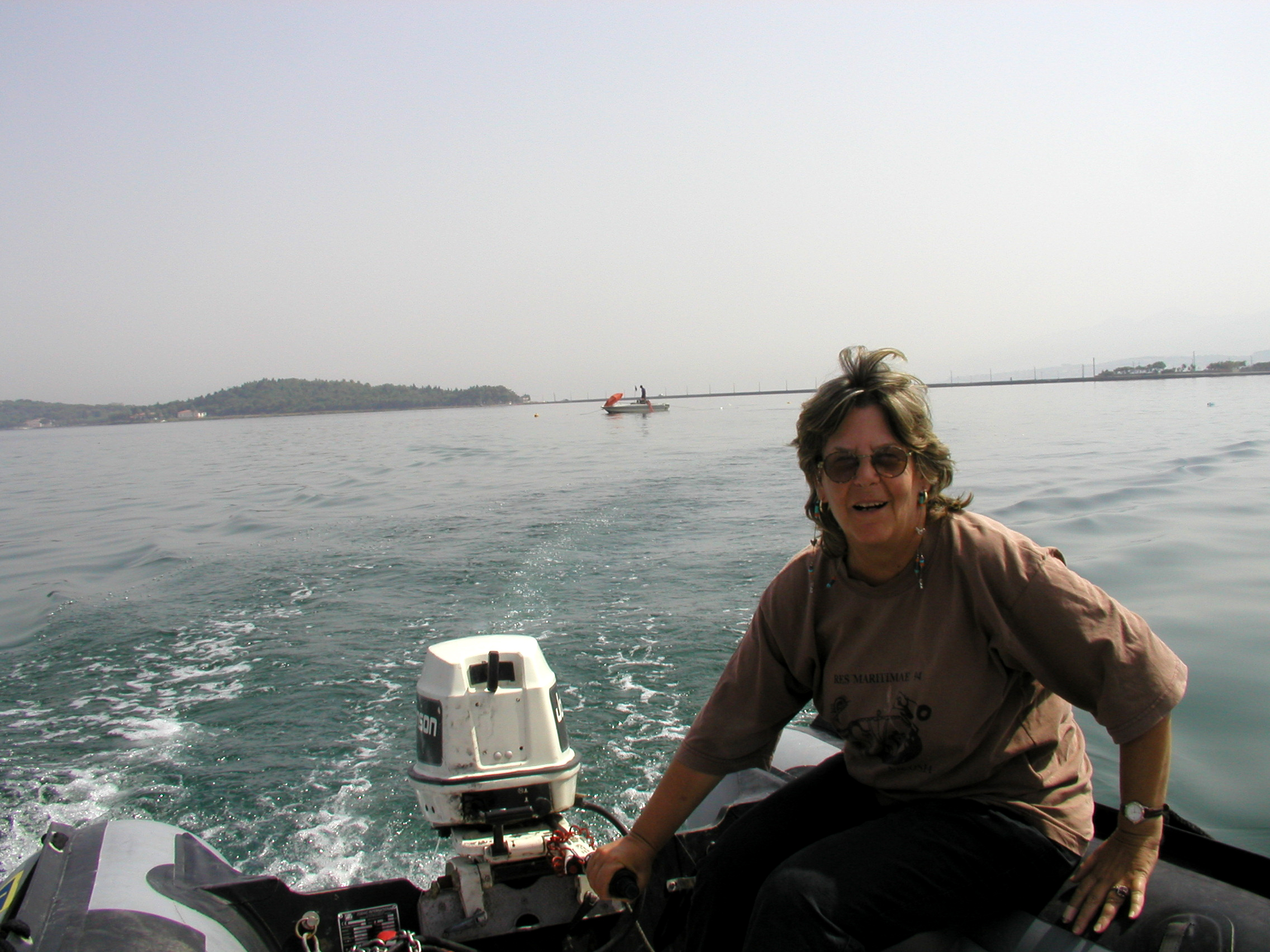 Professor Michal Artzy- Archaeologist from Haifa University. Israel This work is free and may be used by anyone for any purpose. If you wish to use this content, you do not need to request permission as long as you follow any licensing requirements mentioned on this page.